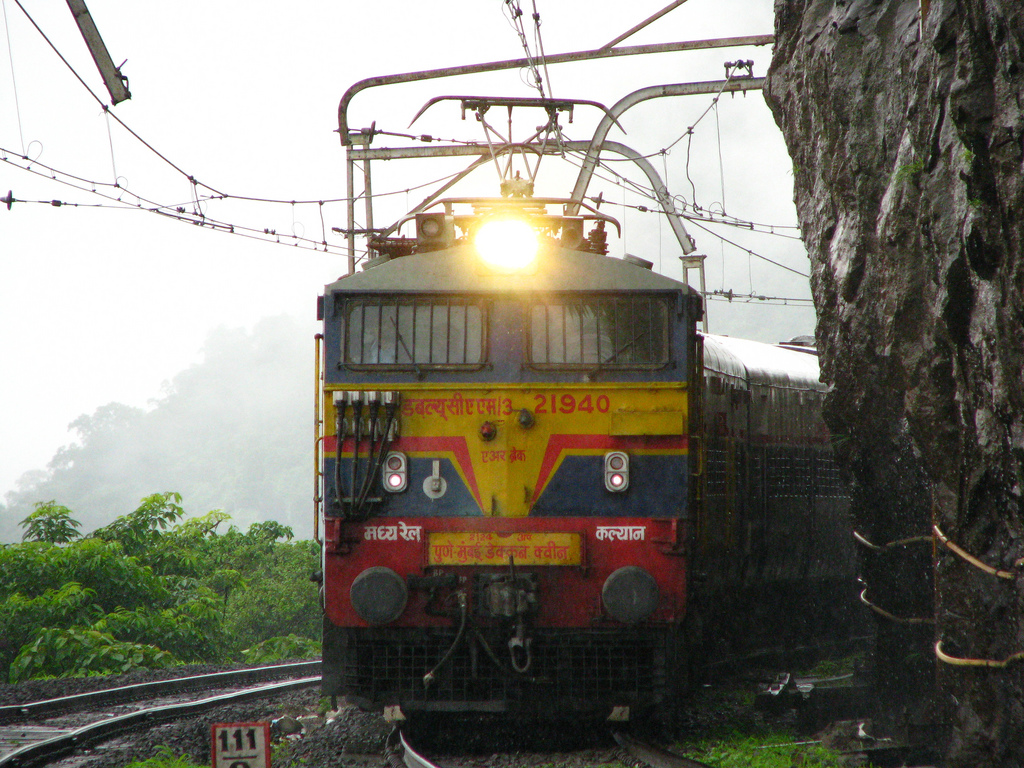 DQ going down the ghats